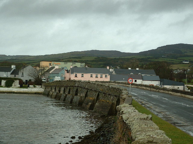 Malin Bridge, Inishowen. Looking north towards Malin Town